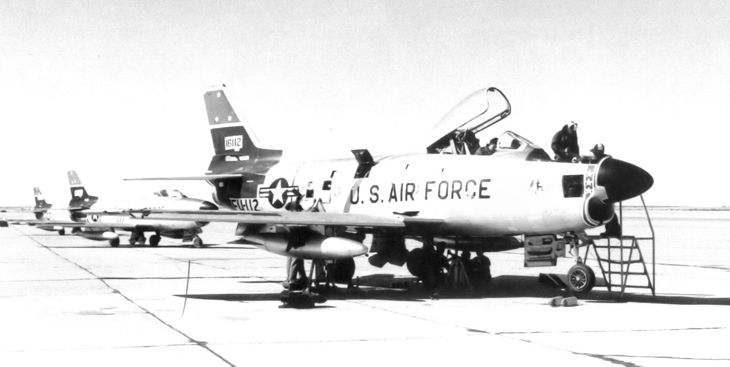 37th Fighter-Interceptor Squadron North American F-86D-30-NA Sabre 51-6112 517th Air Defense Group, Ethan Allen AFB, Vermont Shown in February 1955 at Yuma AFB Arizona